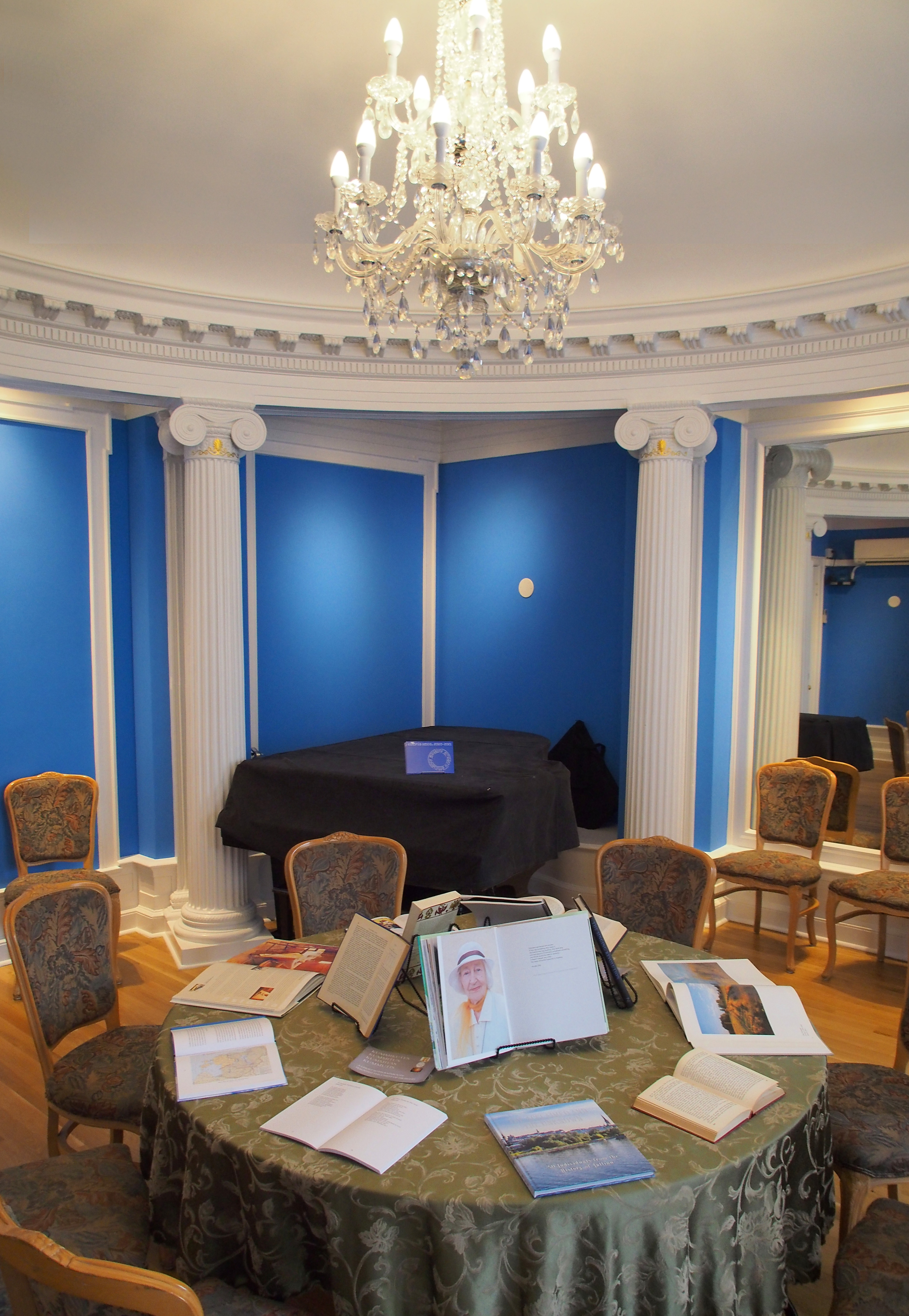 A shot of the small dining room at the Estonia House. Site: Estonia House